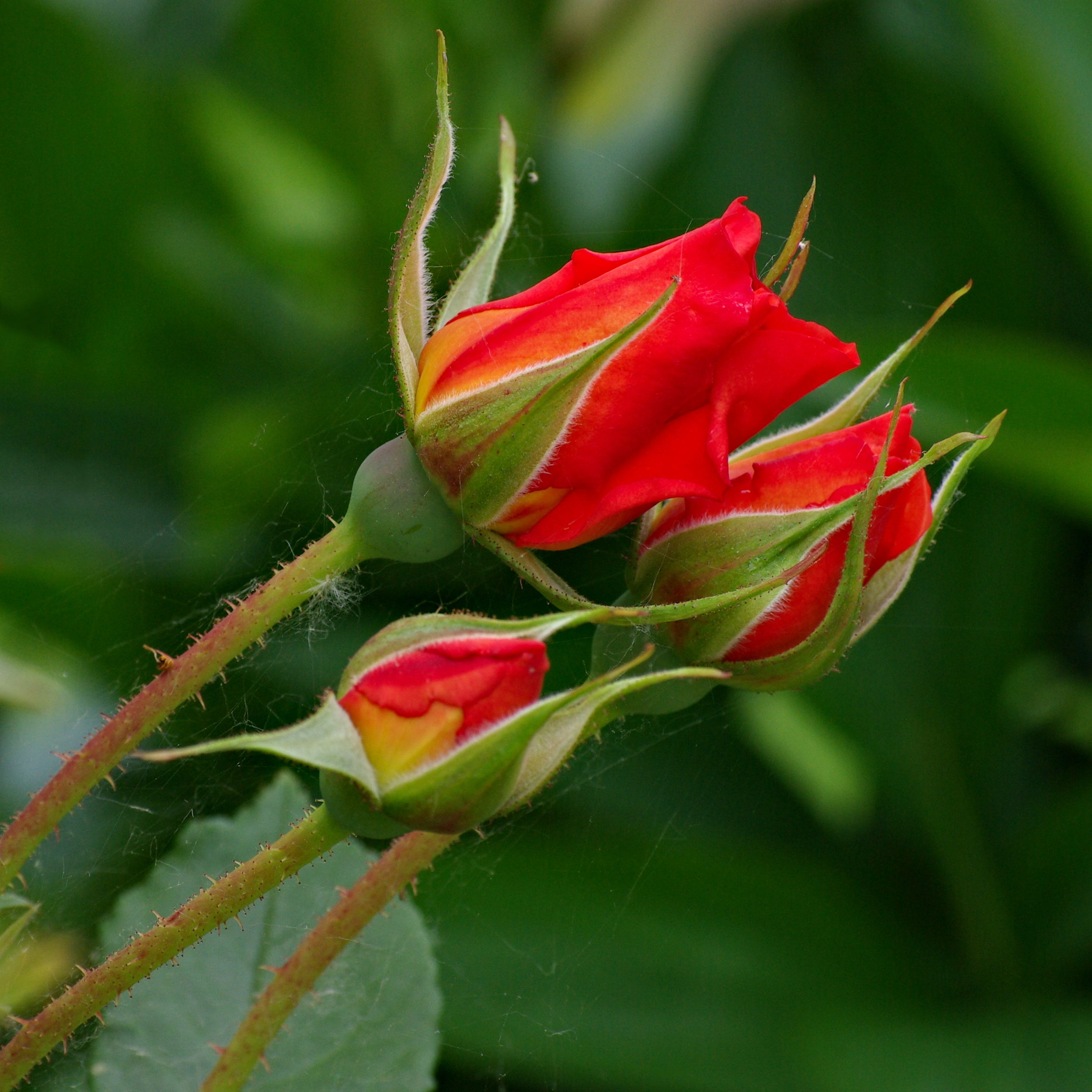 Red roses (Rosa x cultivar),opening buds, in a garden, France.